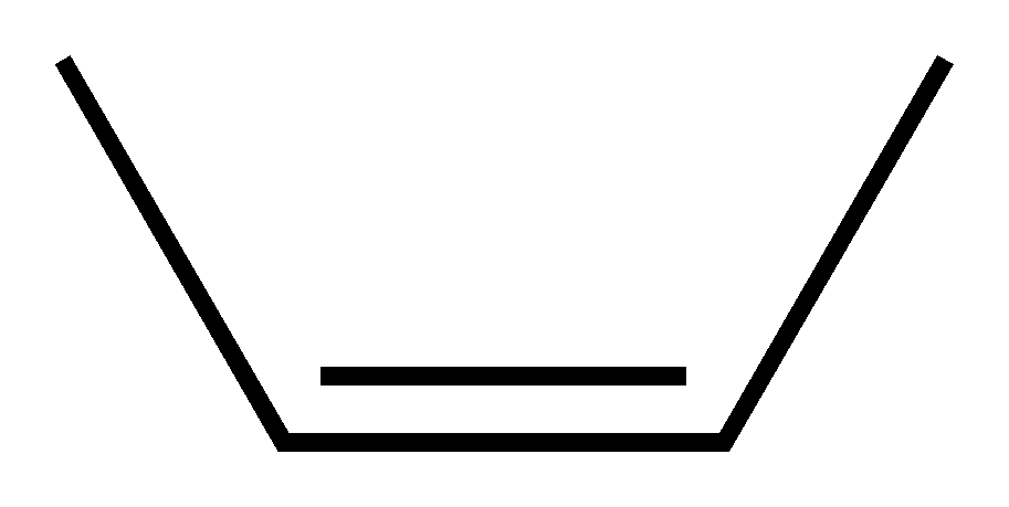 Skeletal formula of cis-but-2-ene